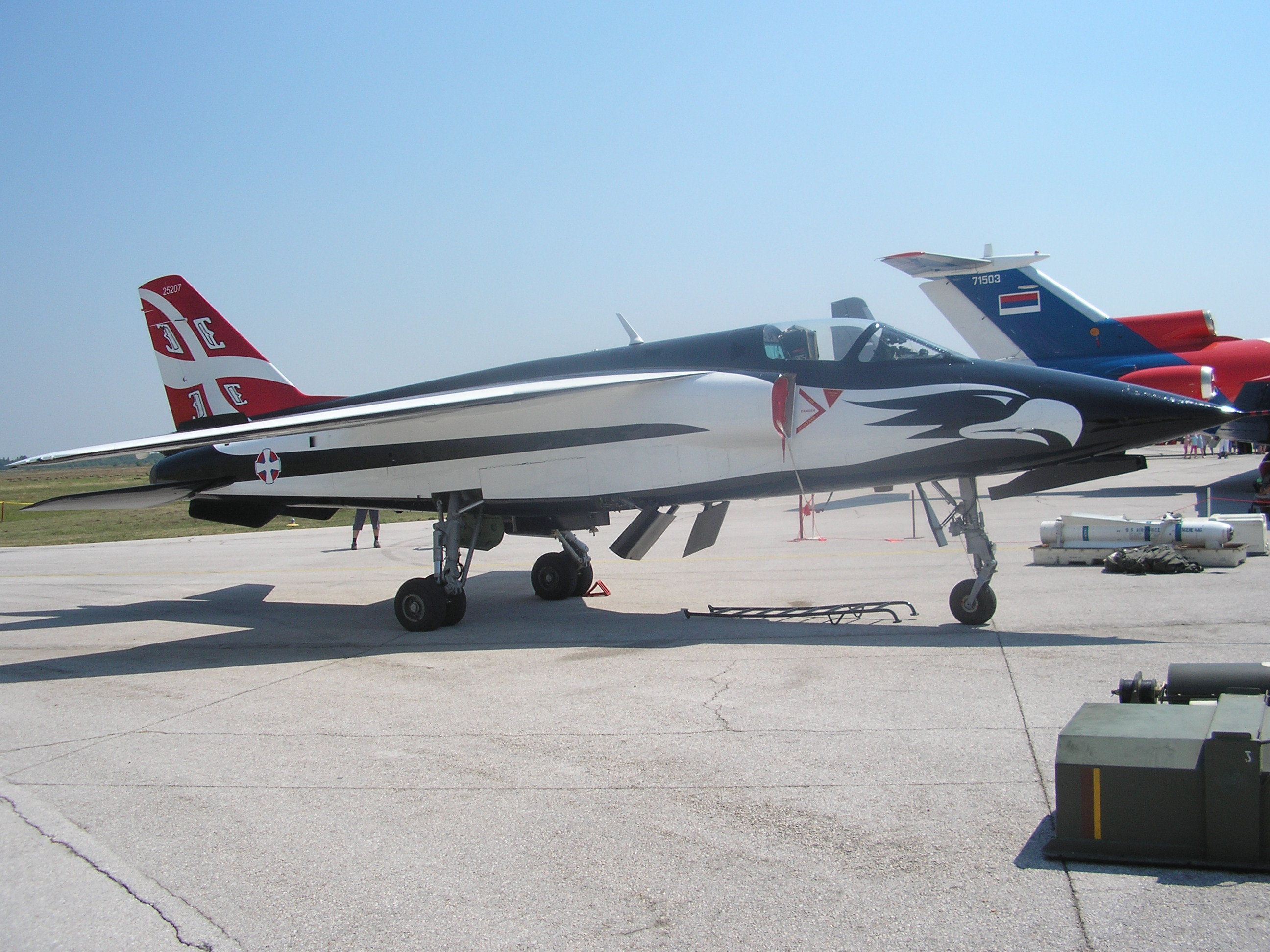 J-22 Orao attack aircraft No.25207 of Flight-Test Sector (SLI, ex-Flight-Test Center - VOC) of Technical Test Center (TOC) with new paint job at Batajnica airbase during the Saint Elijah, the Aviation Day in Serbia. The aircraft landed and parked with other displayed aircrafts after it was flown by SLI test pilot, major Miodrag Ristić, as part of Air show.